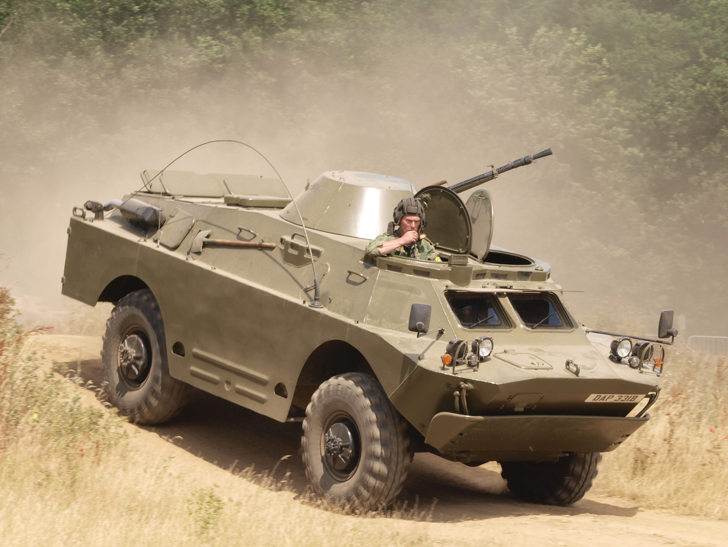 BRDM-2 (1964) owned by James Stewart in the arena.